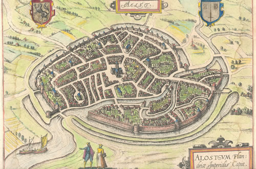 city of Aelst 1581